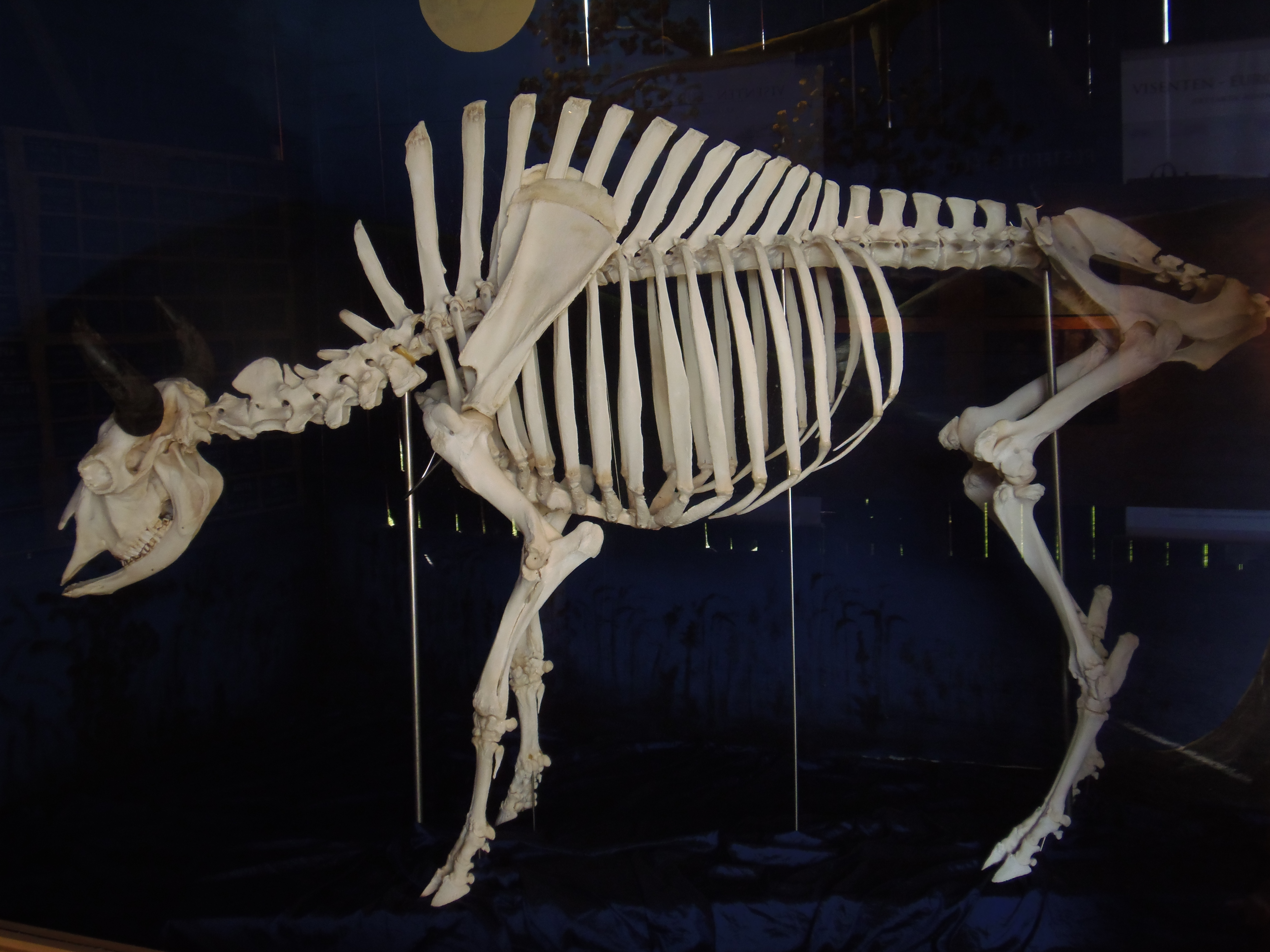 European bison (wisent) in captivity, Avesta Visentpark, Dalarna, Sweden.